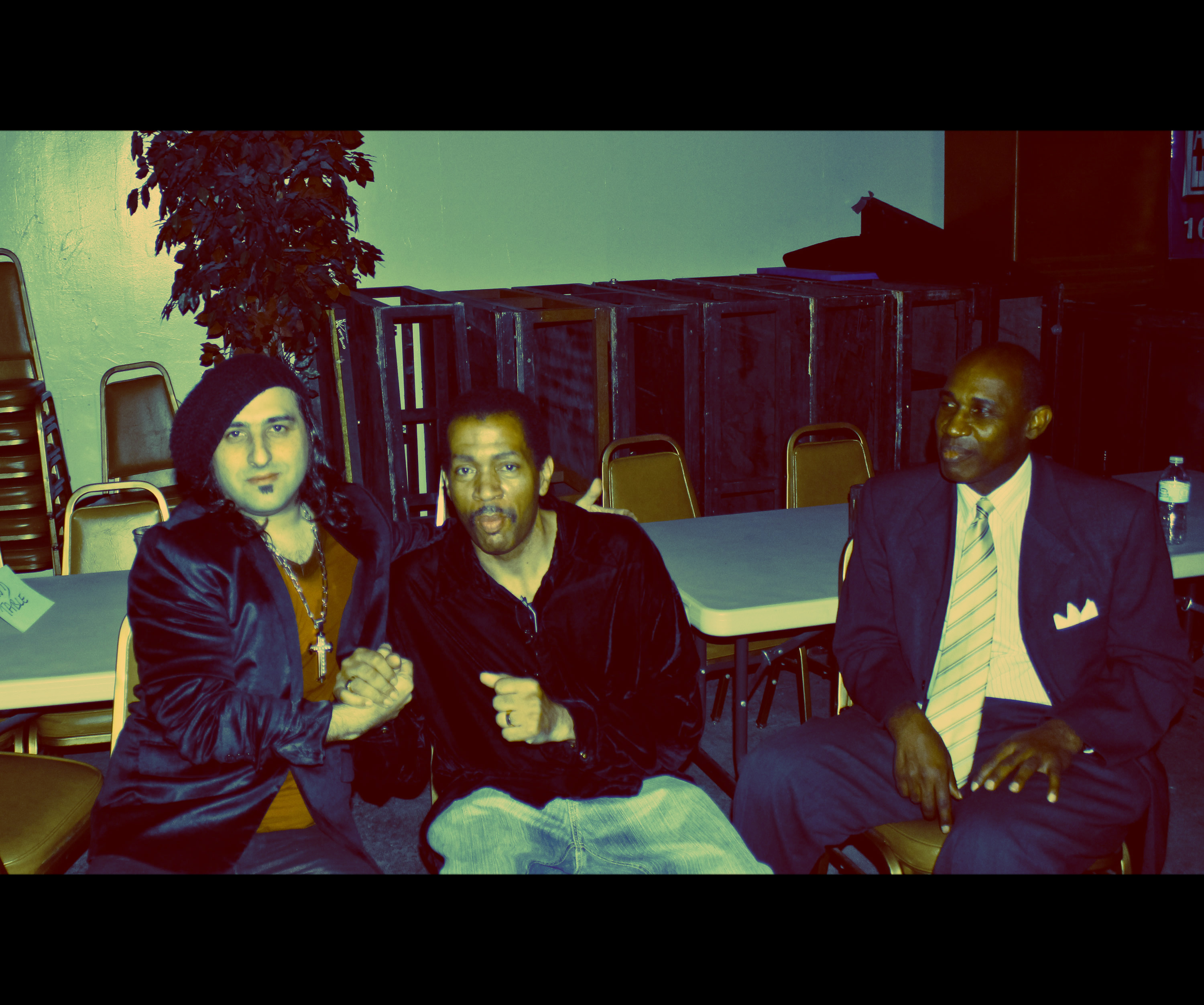 Oz Chiri (Blue Embrace) & Sheldon Reynolds (Earth, Wind & Fire)